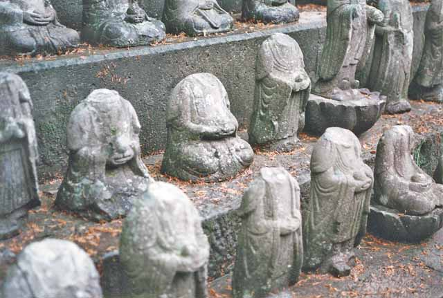 Beheaded statues of Jizo, Shimabara, Nagasaki, Japan